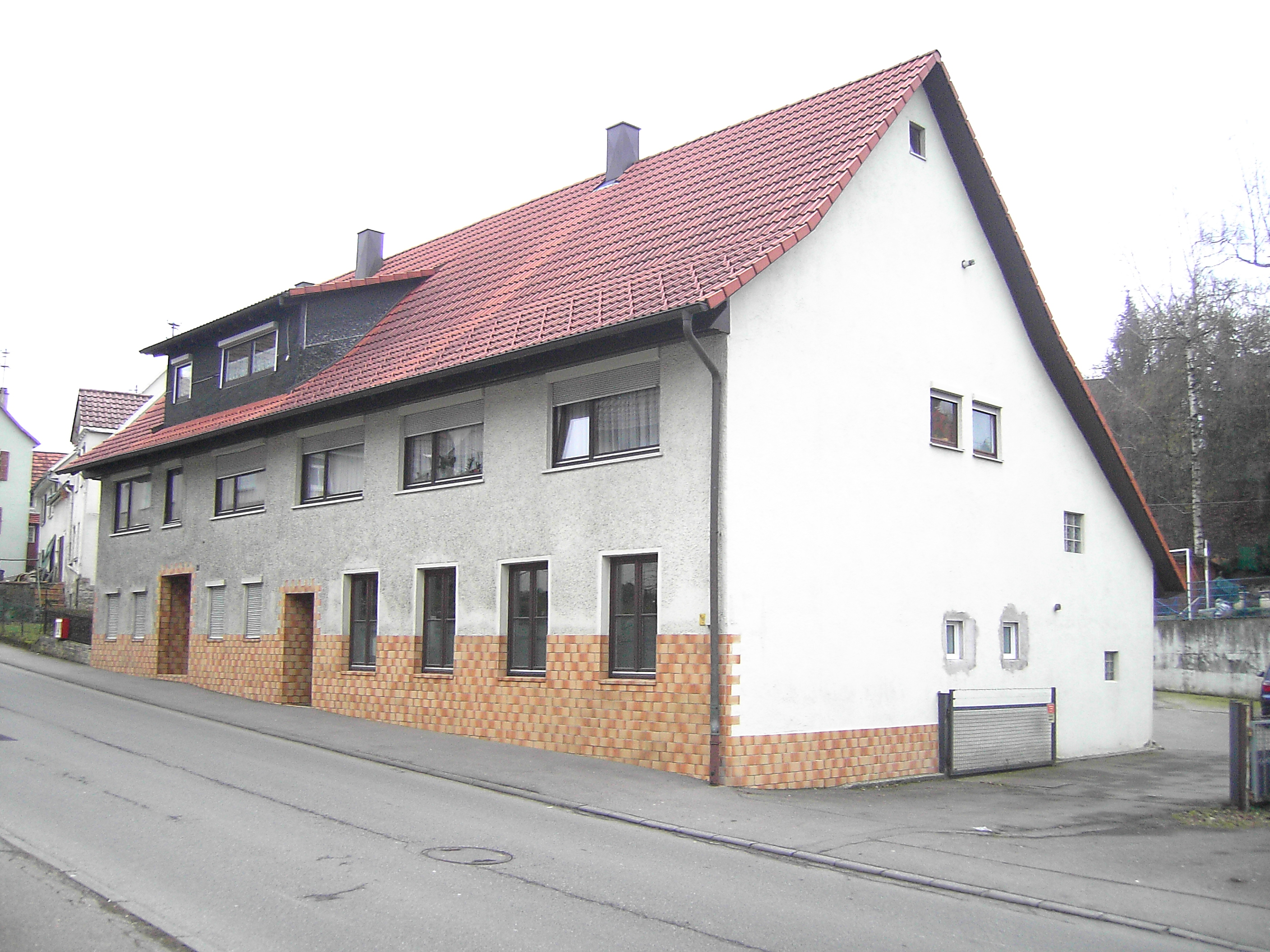 One of the five affiliates of the 1887 founded textil-enterprise Hasana-J.Hakenmüller, here in 72379 Hechingen-Stetten in Germany, from 1955 - 1995. Today a centre for an islamic group.